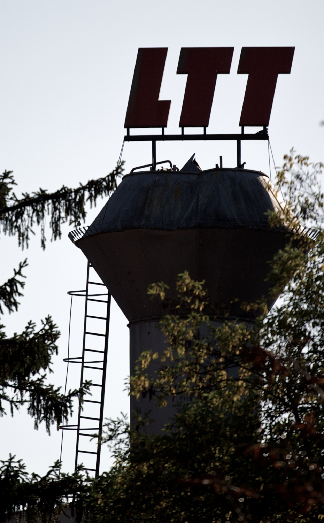 Landestheater Tübingen (LTT). Chimney with the three letters.